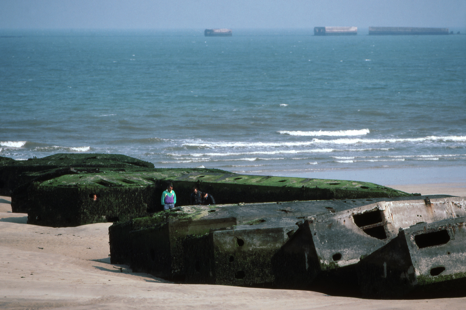 Beetle pontoons of Mulberry Harbour B, in the background seaside phoenix elements; Arromanches, Normandy, France